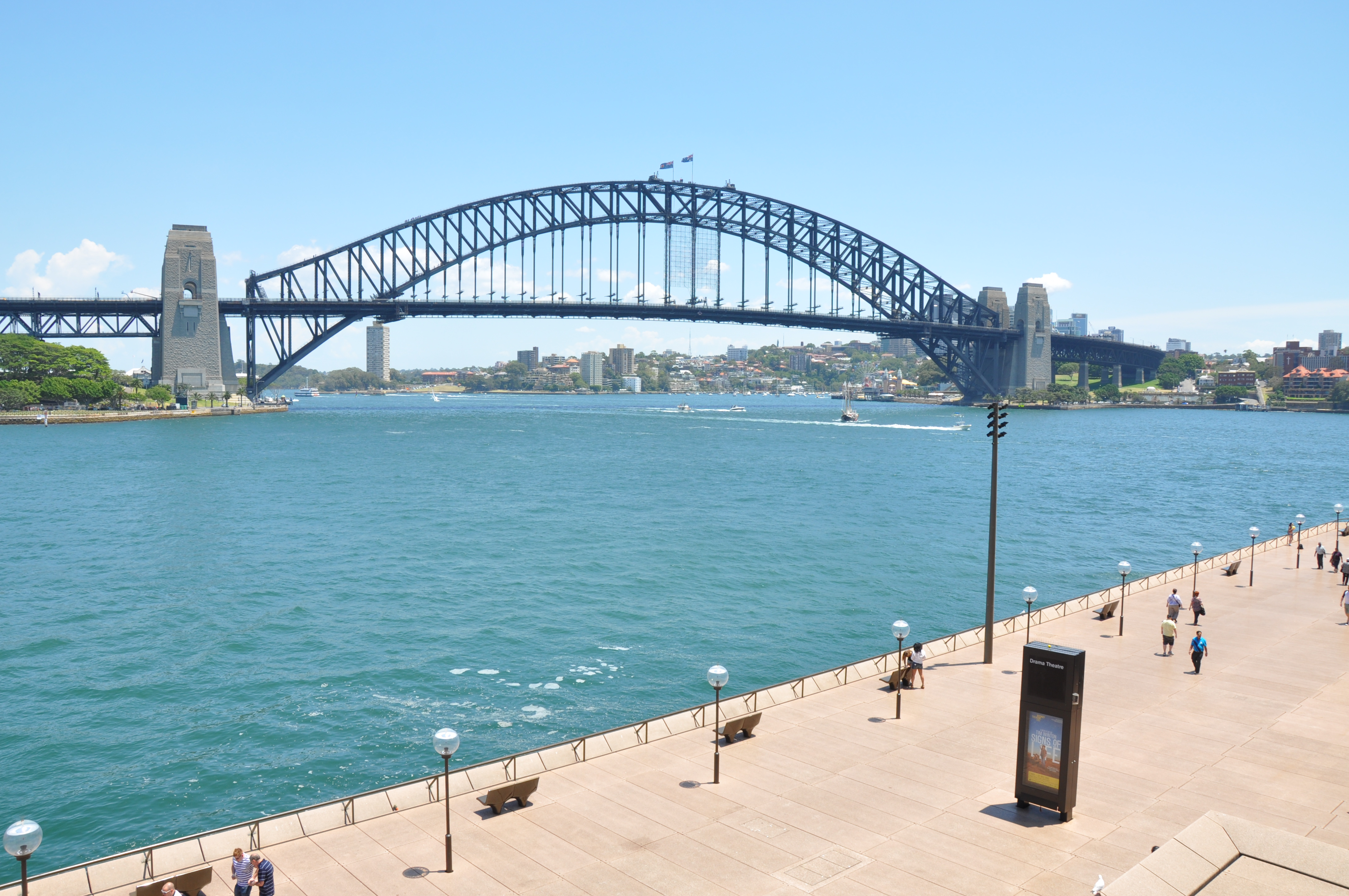 Sydney Harbour Bridge, summer 2012